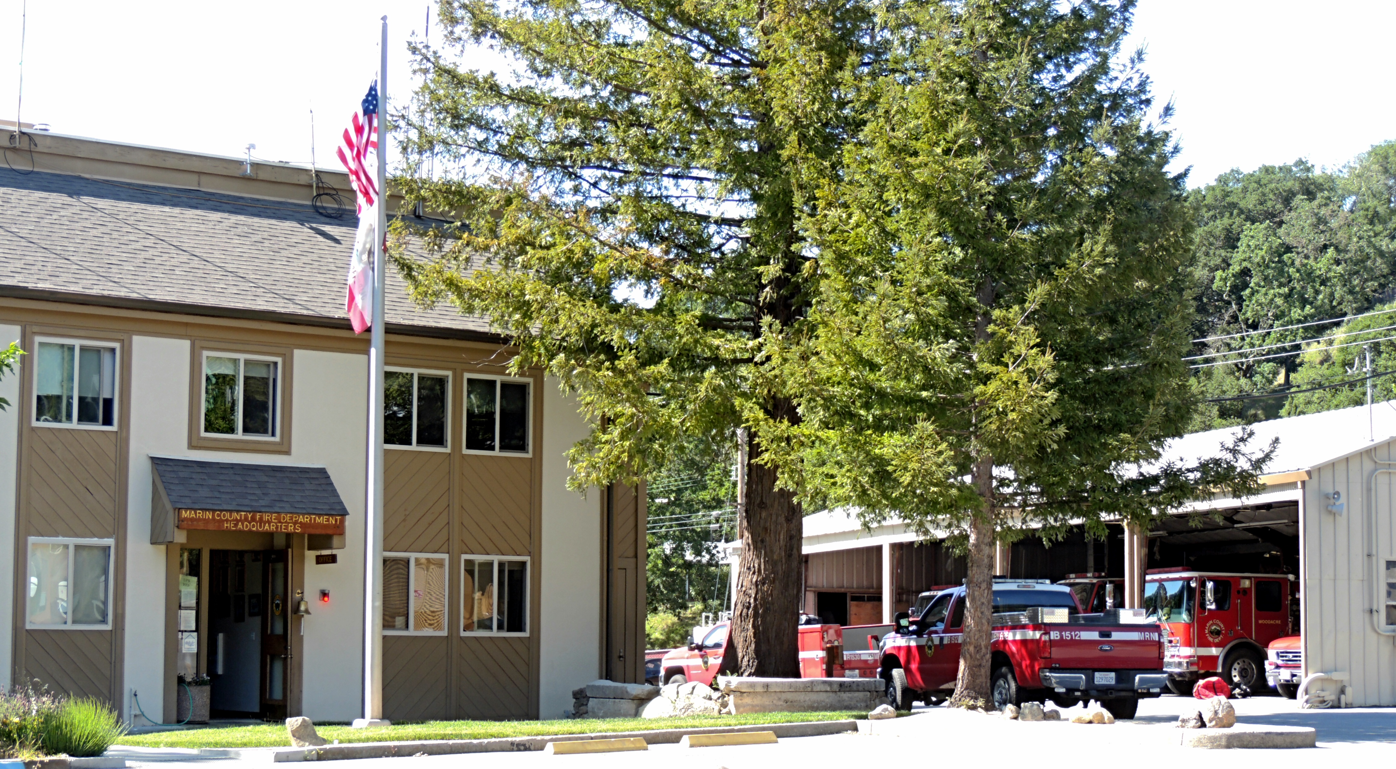 Headquarters for the Marin County Fire Department in Woodacre, California